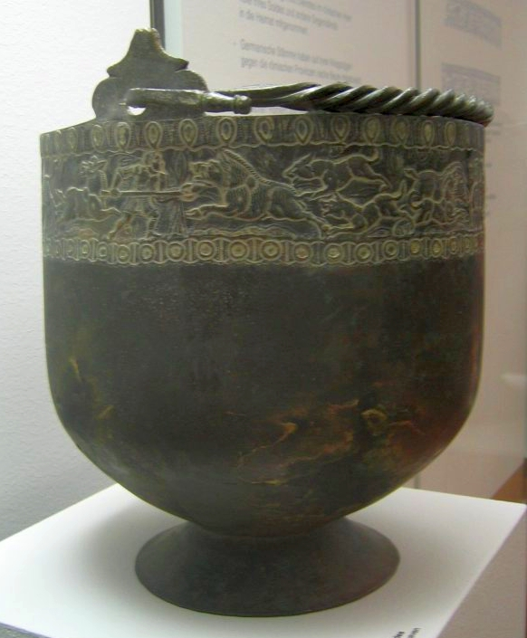 Late roman brass bucket so called Hemmoorer Eimer from Warstade, Germany 2nd/3rd century